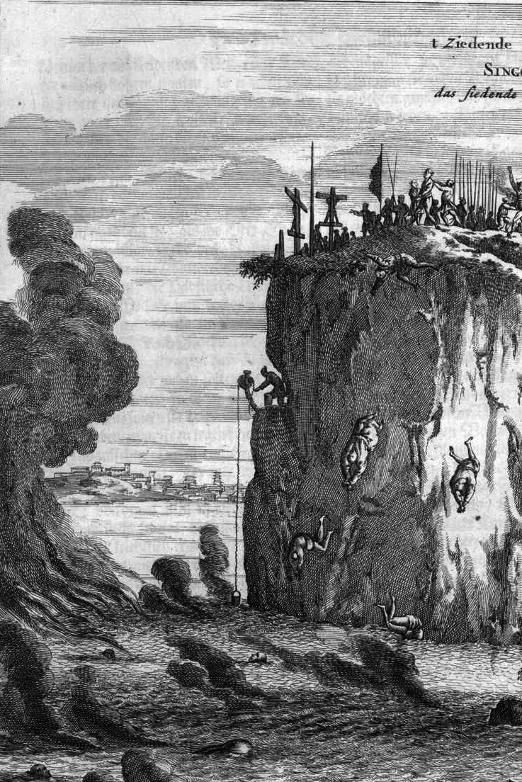 Martydom of Japanese and Christians and European missionaries in early 17th century Japan, who were thrown into the hot springs of the mount Unzen (Kyushu). The illustration was engraved based on written reports sent to Europe.